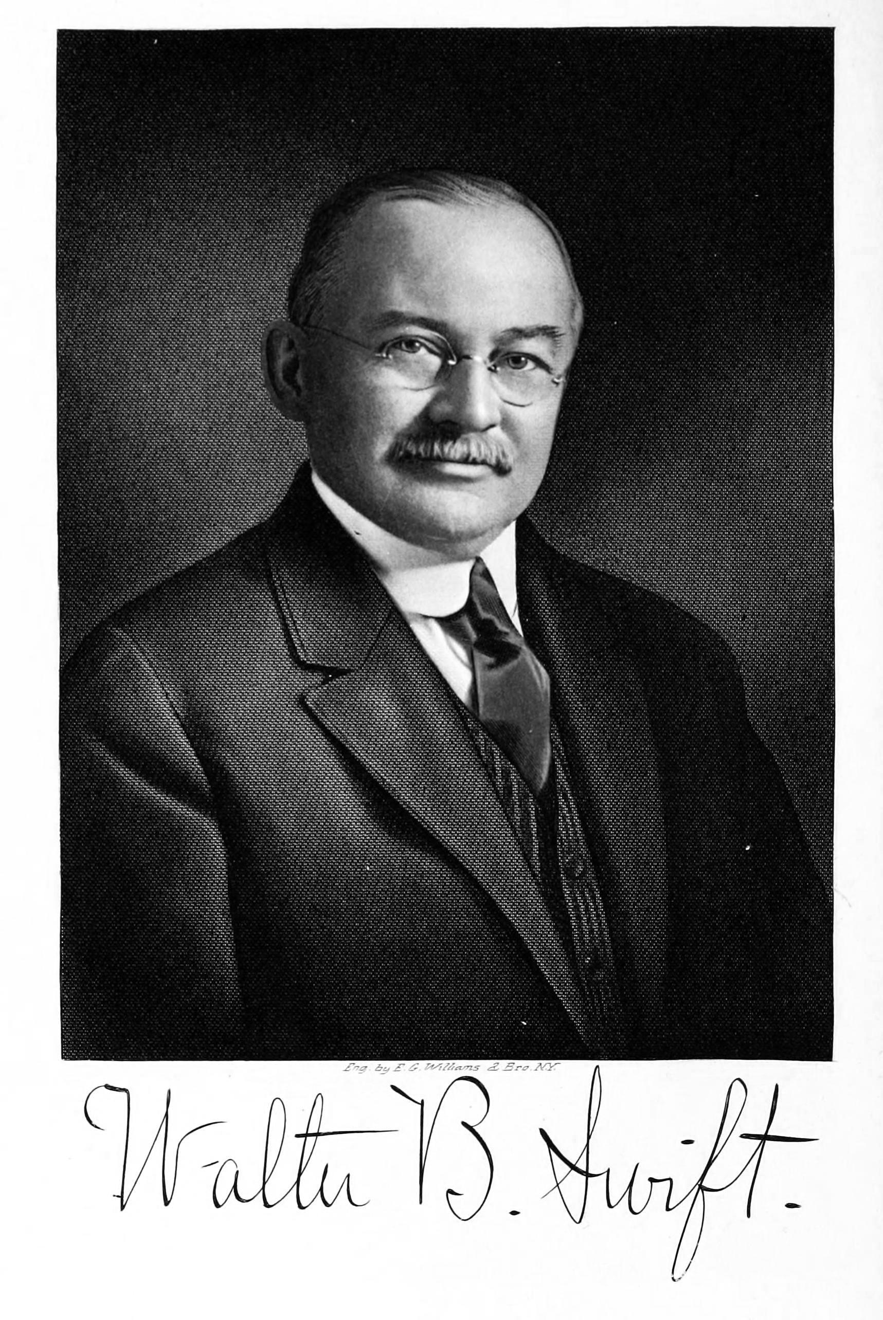 Walter Babcock Swift